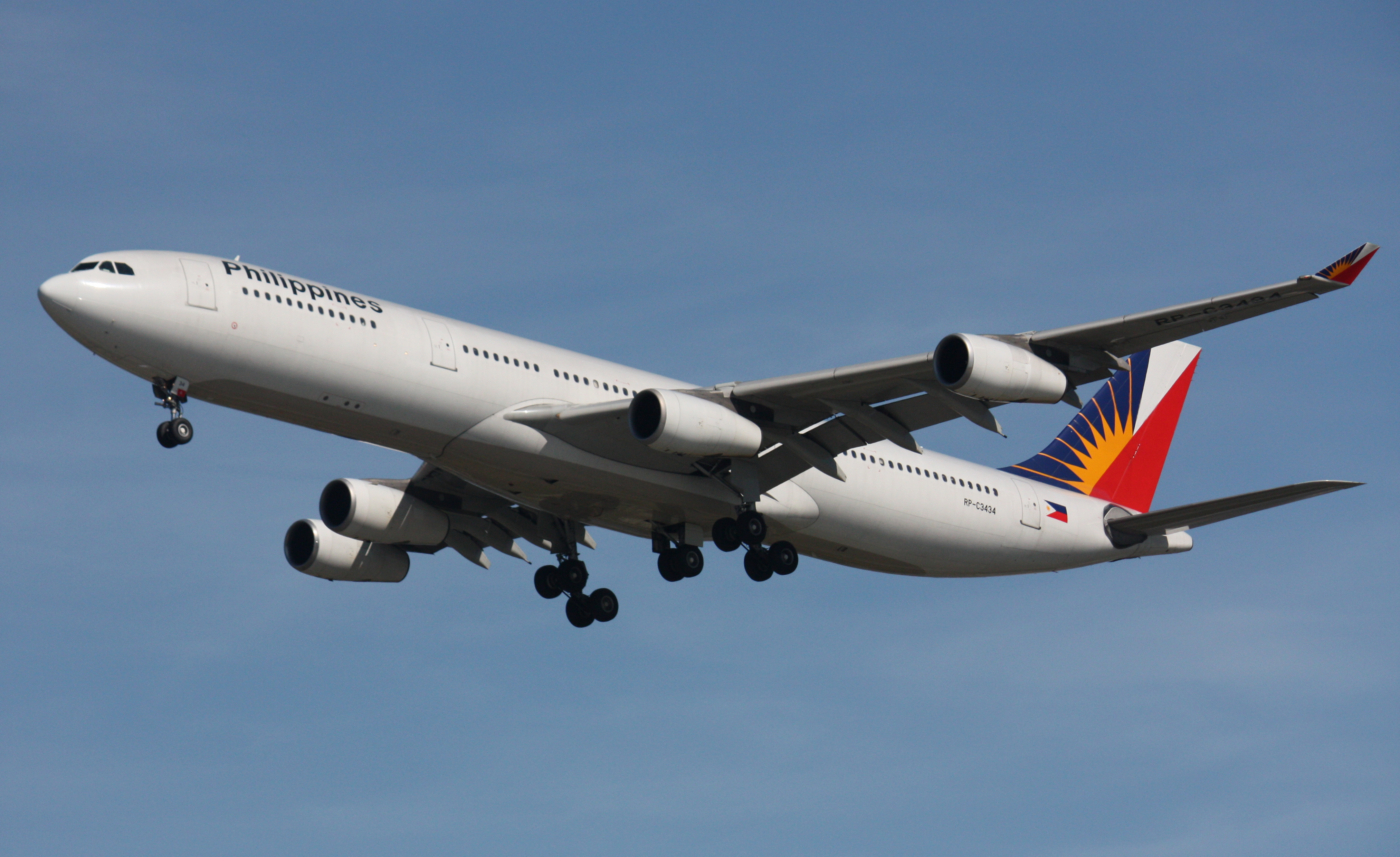 A Philippine Airlines Airbus A340-313X landing at Vancouver International Airport